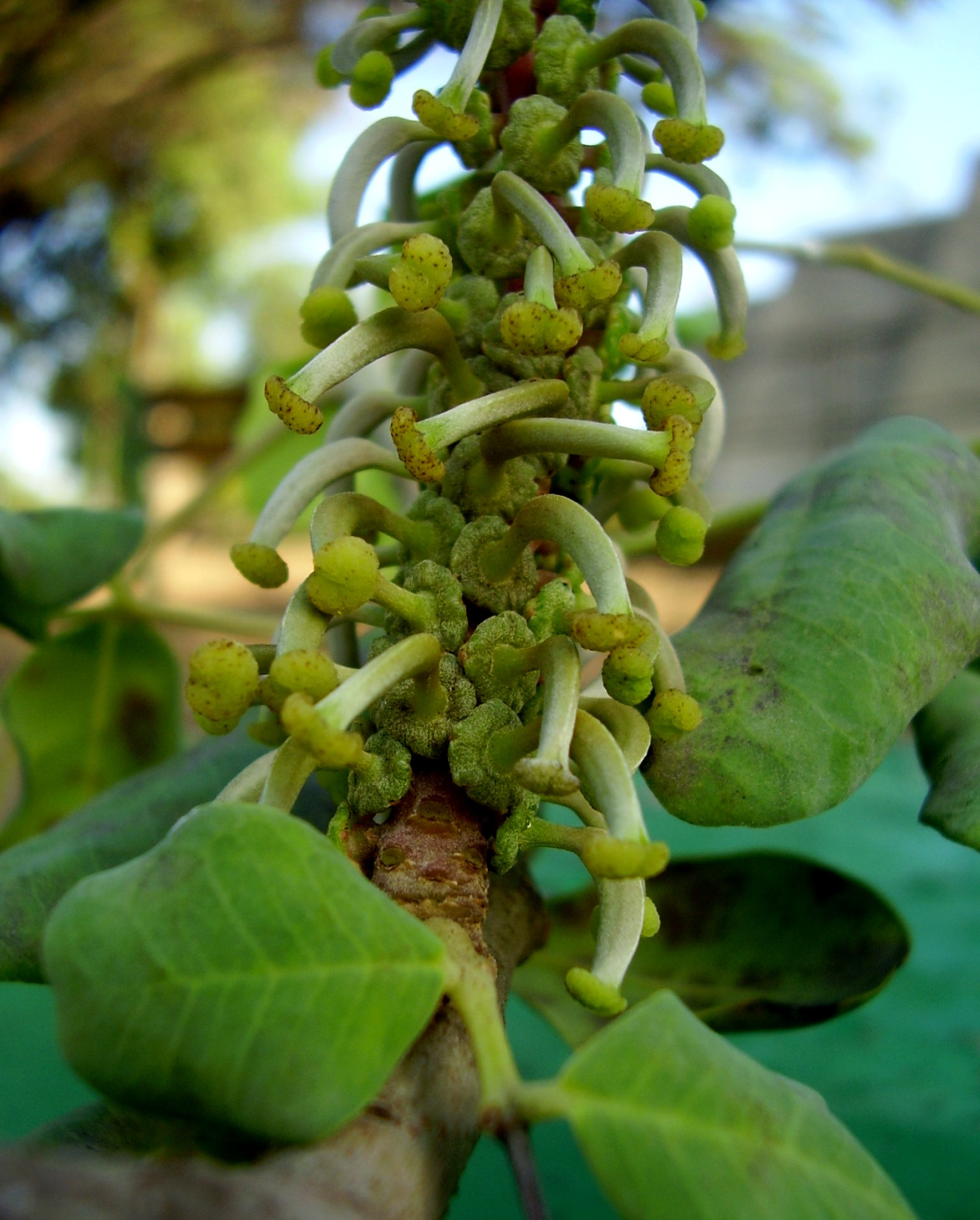 Photographed at the Israel Border Police memorial site near kibbutz Barkai. Ceratonia siliqua female flowers.